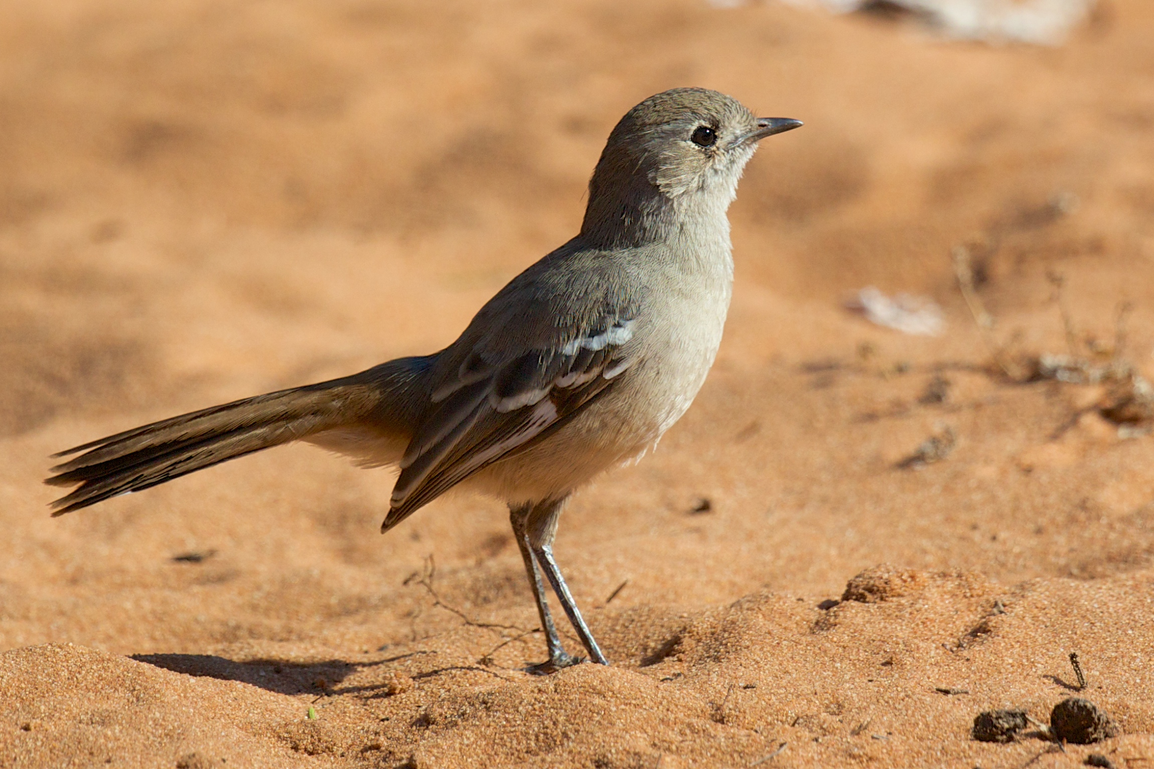 Southern Scrub-robin Big Lagoon Francois Peron National Park Peron Peninsula Western Australia